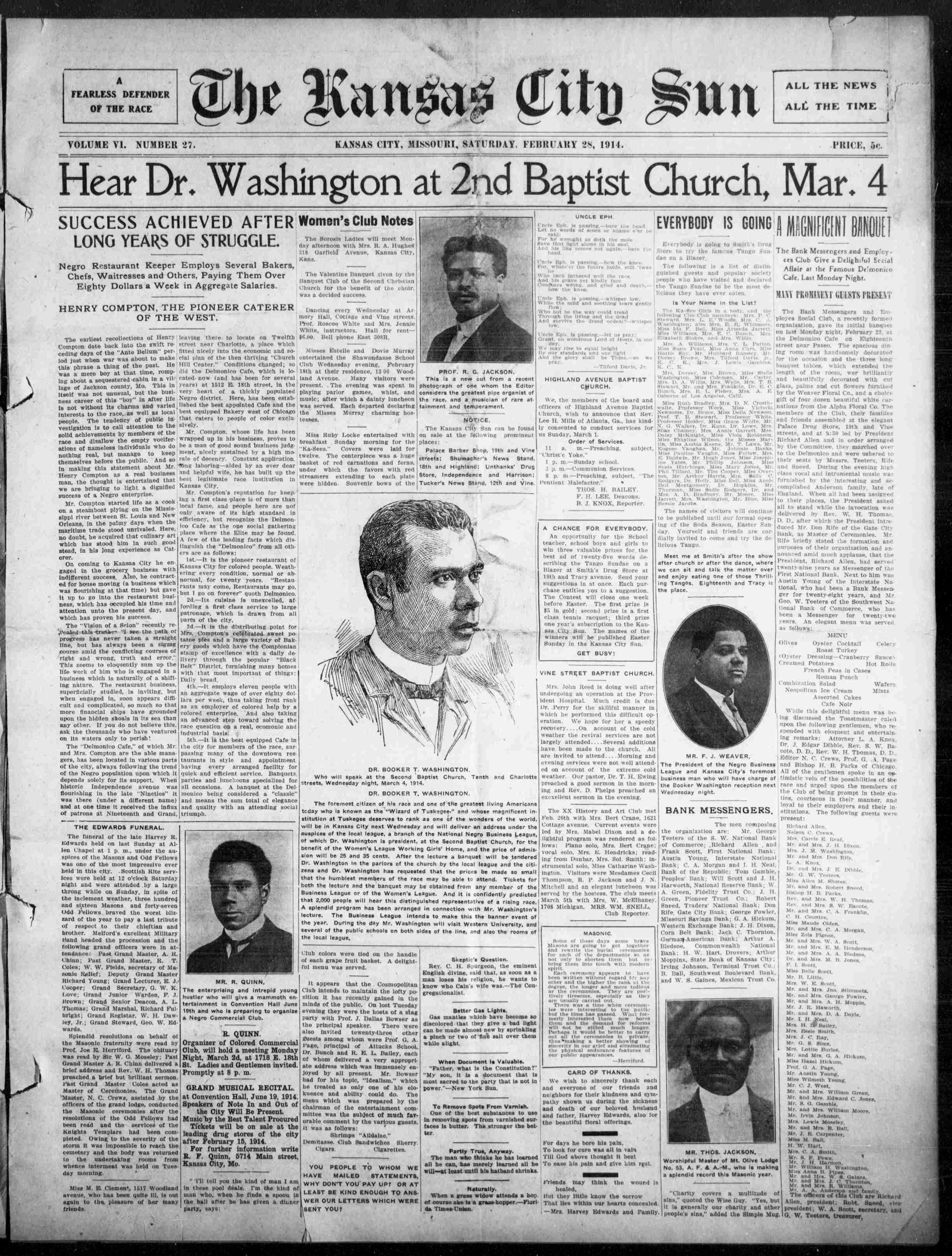 Front page of the Kansas City Sun of February 28, 1914. Top headline announces a speech by Dr. Booker T. Washington at Kansas City's Second Baptist Church.